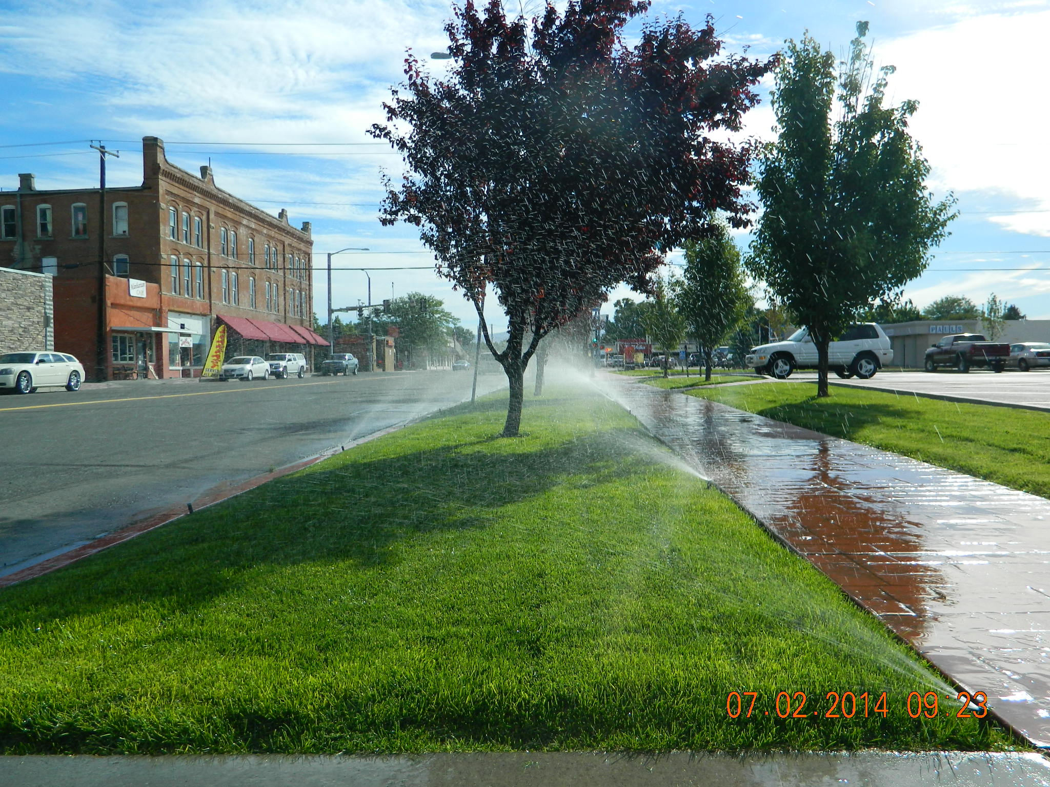 Mountain Home, Idaho This work is free and may be used by anyone for any purpose. If you wish to use this content, you do not need to request permission as long as you follow any licensing requirements mentioned on this page.